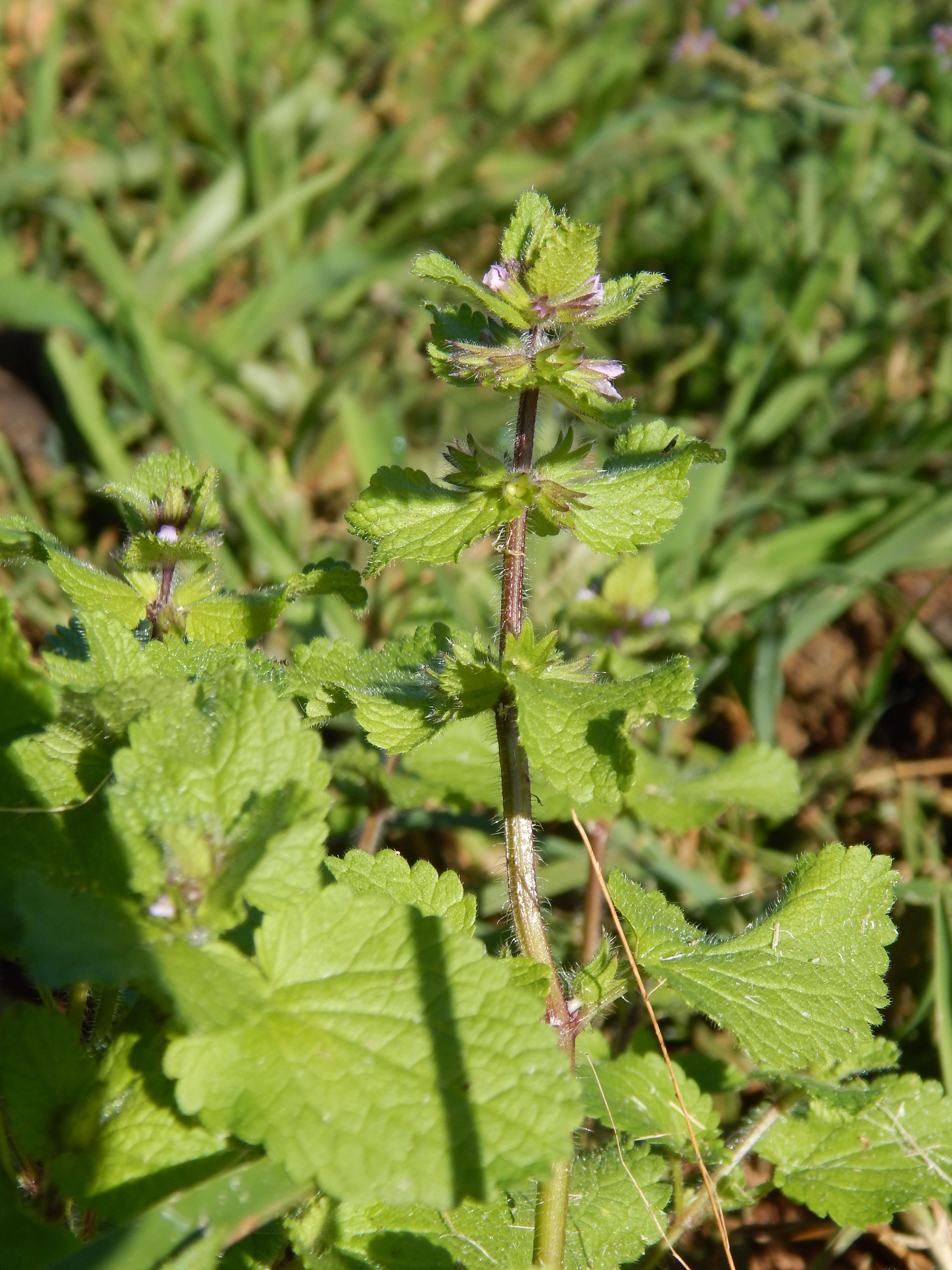 Stachys arvensis (Staggerweed) Flowering habit at Hoku Nui Piiholo, Maui, Hawaii. December 29, 2014 #141229-3175 Image Use Policy